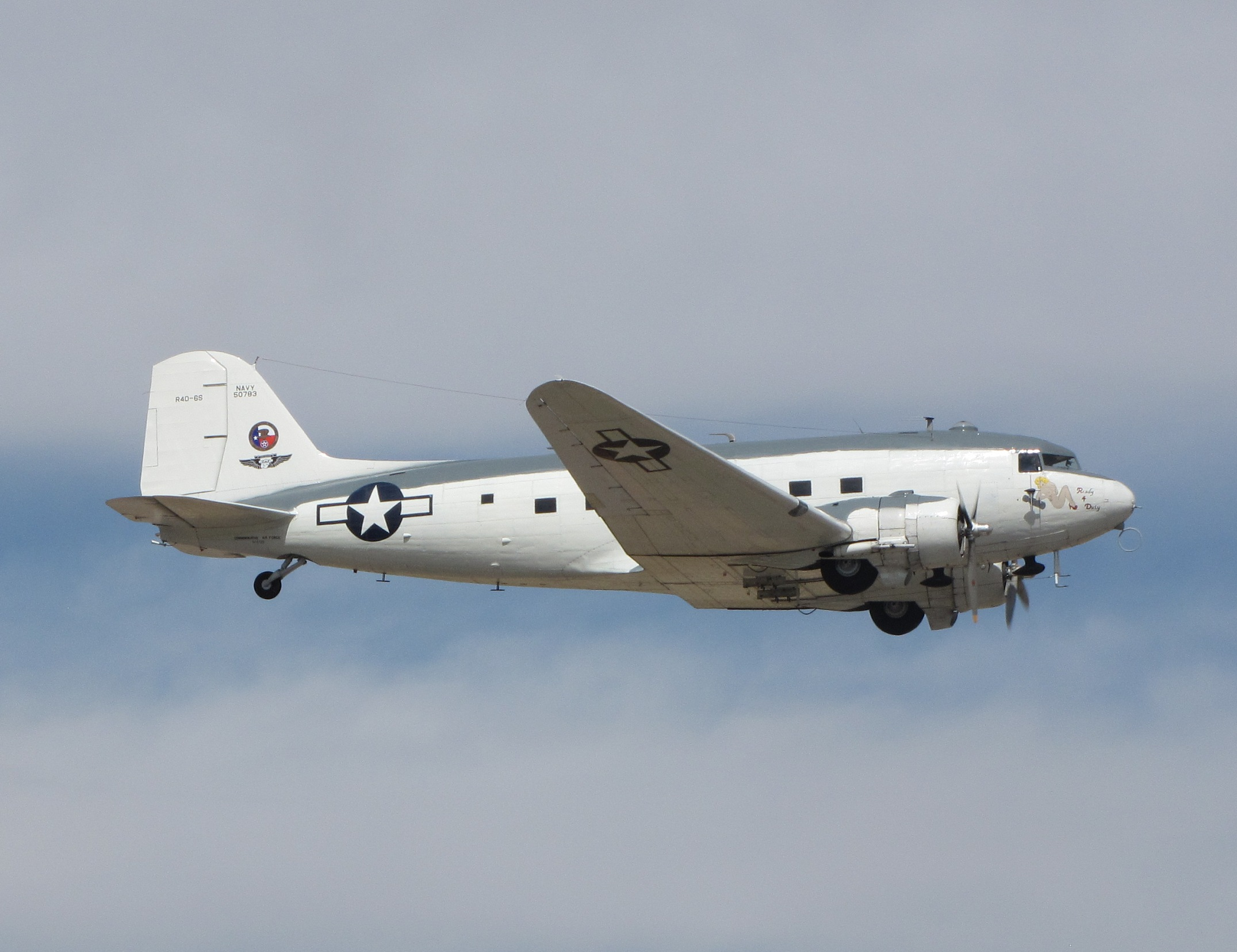 Navy R4D (DC-3), Midland, Texas